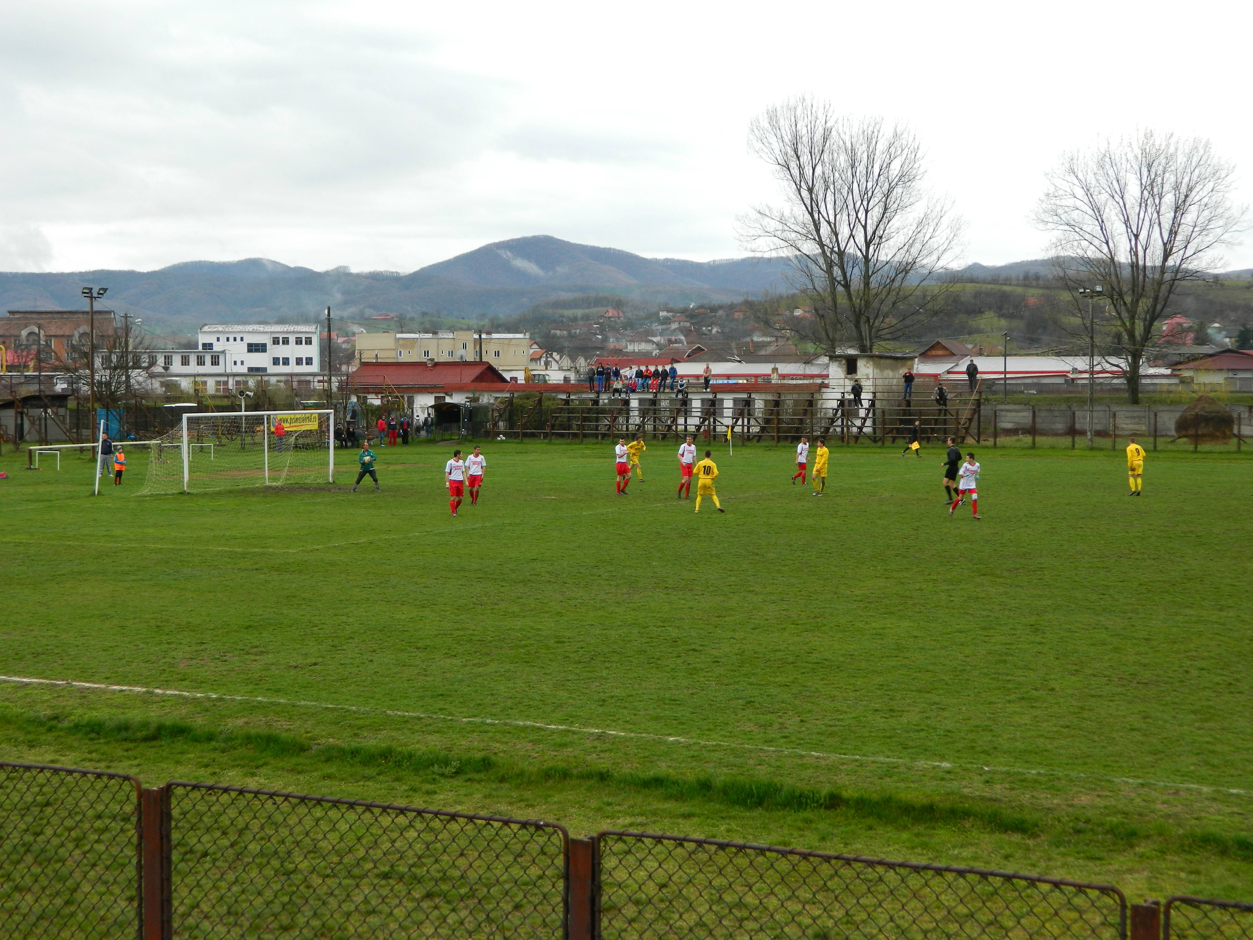 Aurul - Victoria Calan 4-0